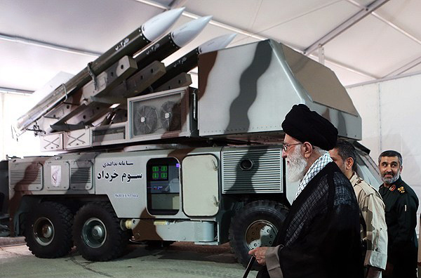 Ayatollah Khamenei inspects a 3 Khordad TELAR at an IRGC-ASF weapons expo in May 2014. Please see here for a source.